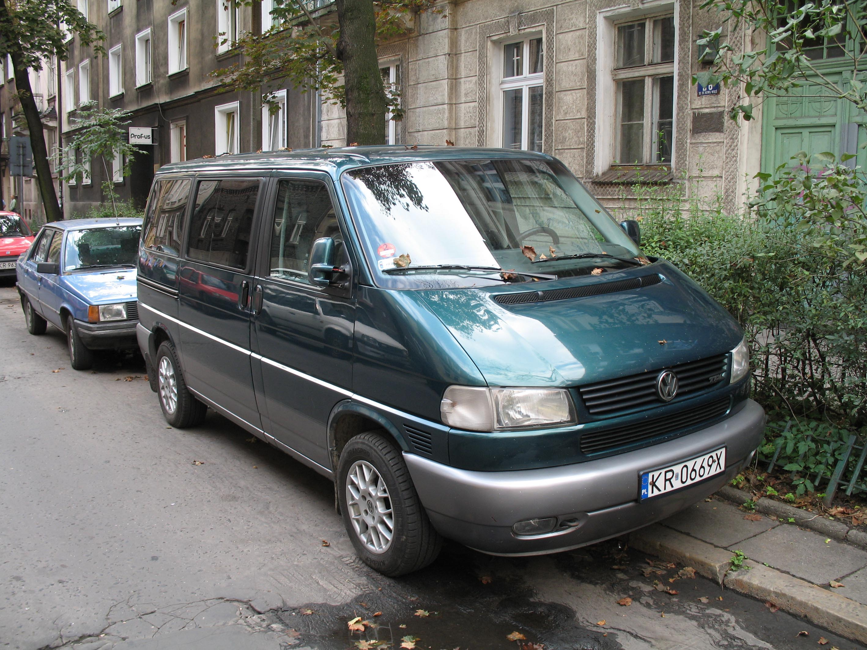 Volkswagen Multivan TDI in Kraków, Poland.